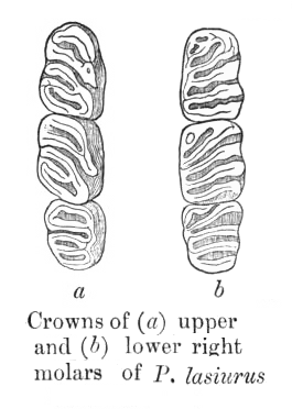 Molars of Platacanthomys lasiurus